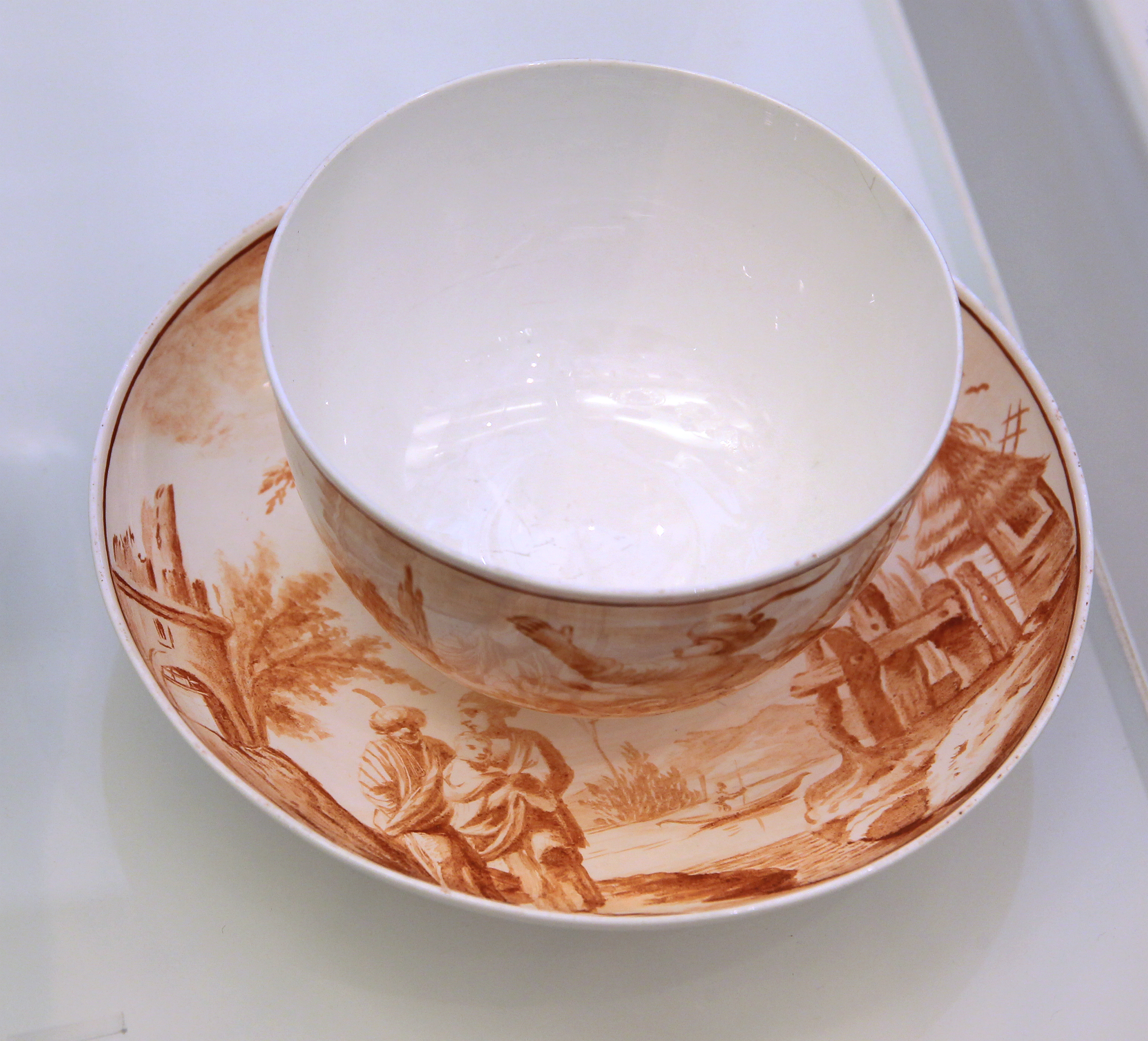 Cup and saucer, enamelled white glass imitating porcelain. Venice, about 1730-1745. Victoria and Albert Museum, room 131.